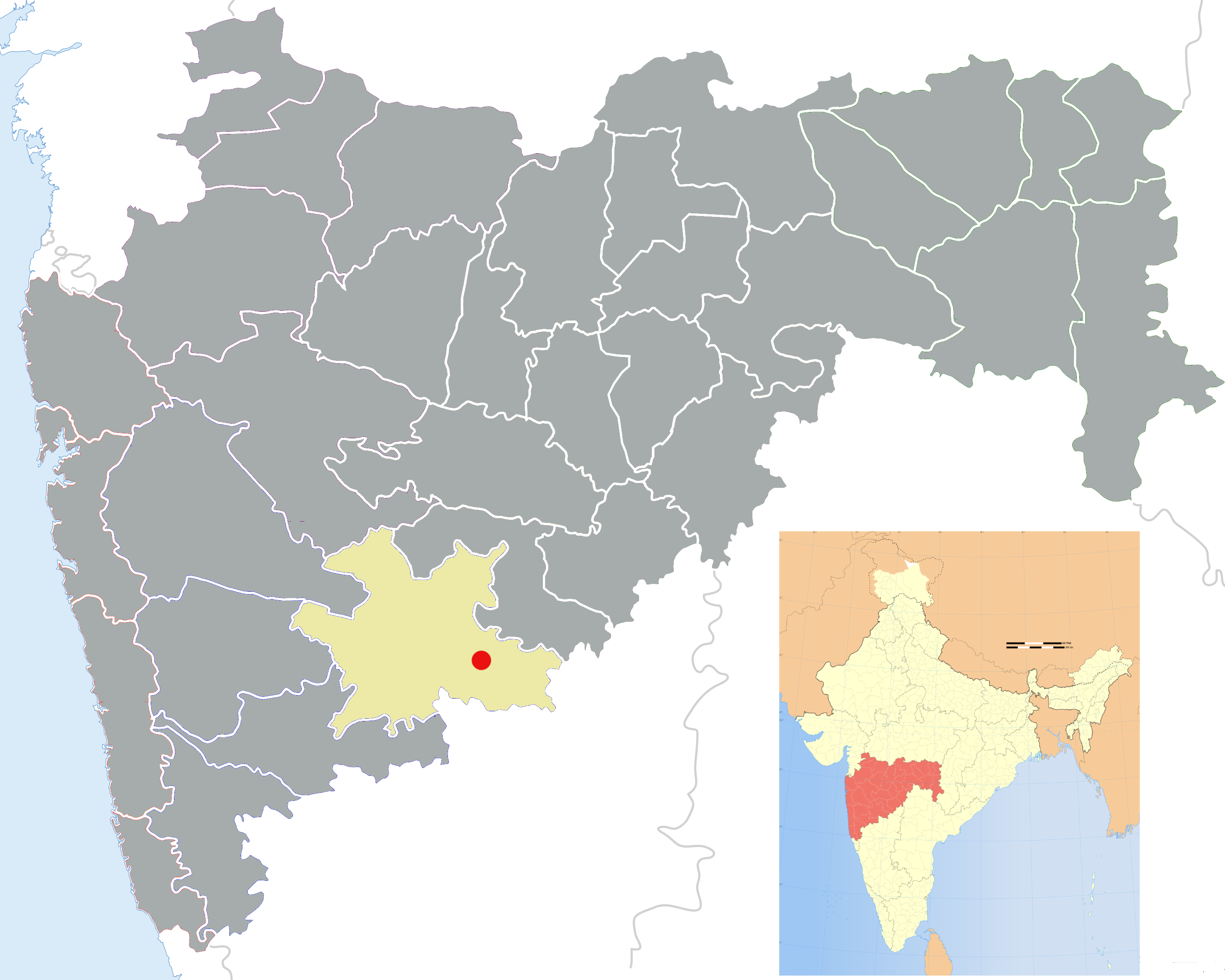 Location of Solapur in Maharashtra, India